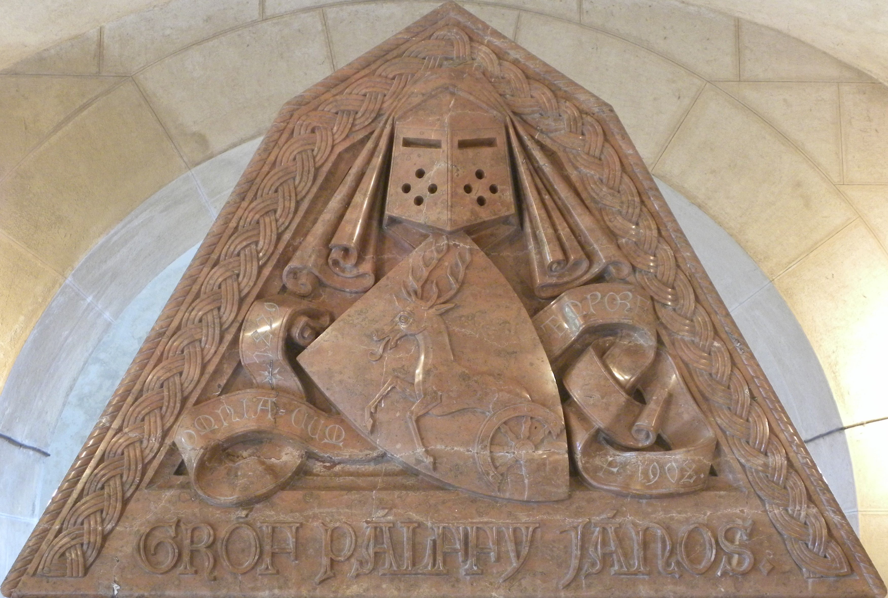 Coat of arms of János Ferenc Pálffy. Sarcophagus in crypt of Bojnice Castle.